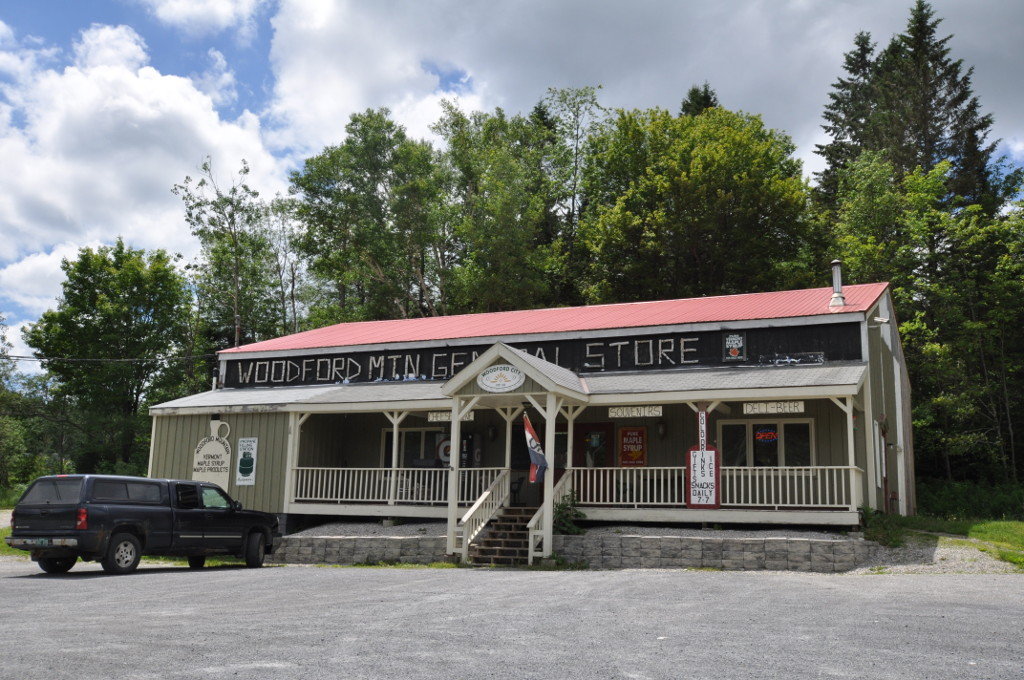 The general store in Woodford, Vermont.